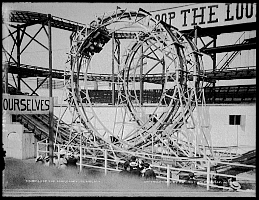 Achterbahn „Loop the Loops“, im Lunapark-Vergnügungspark auf Coney Island, New York.